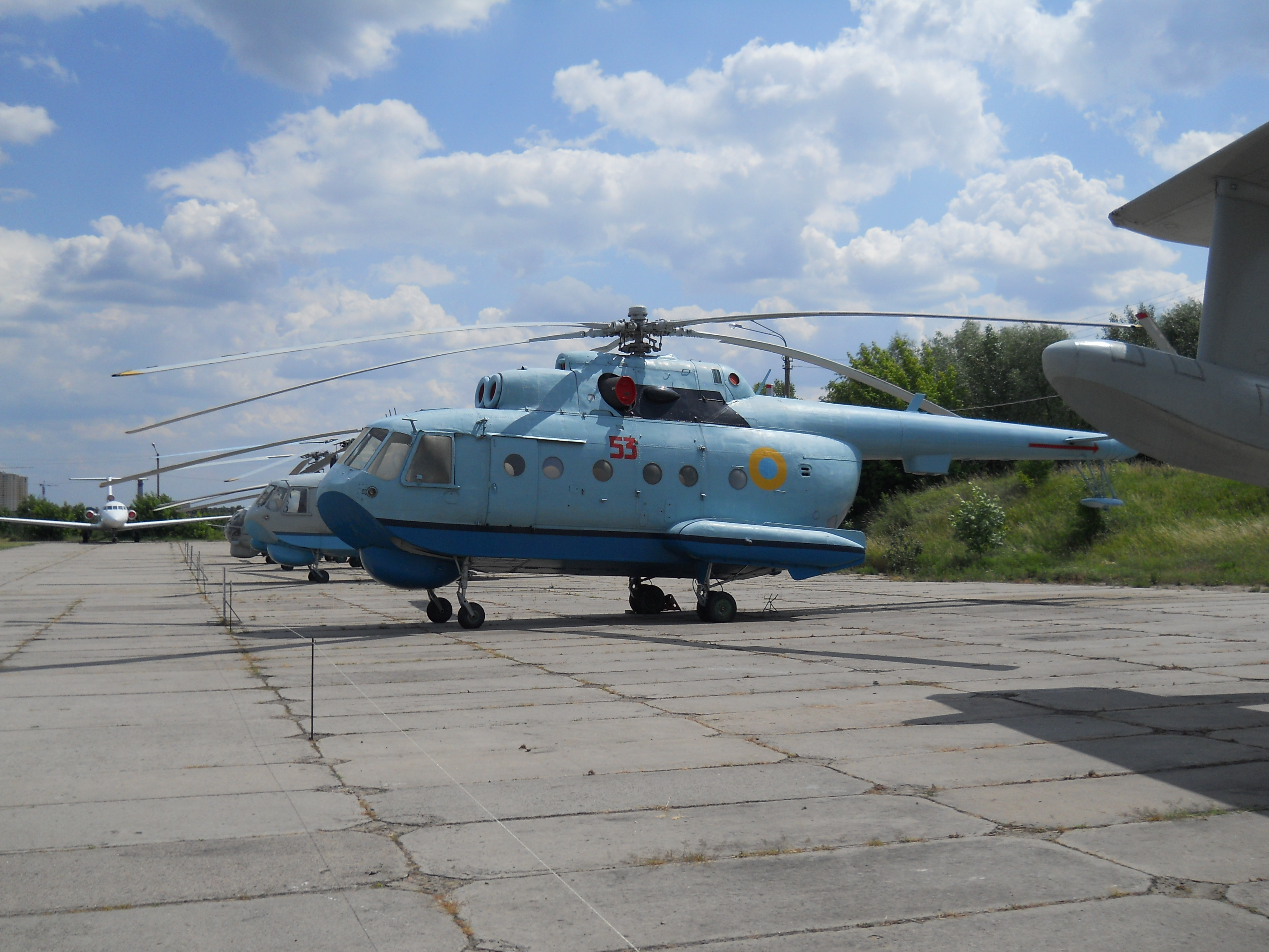 A Mil Mi-14 in the Ukrainian State Aviation Museum.